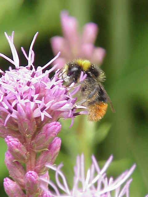 Species: Liatris spicata Family: Asteraceae Image No. 1